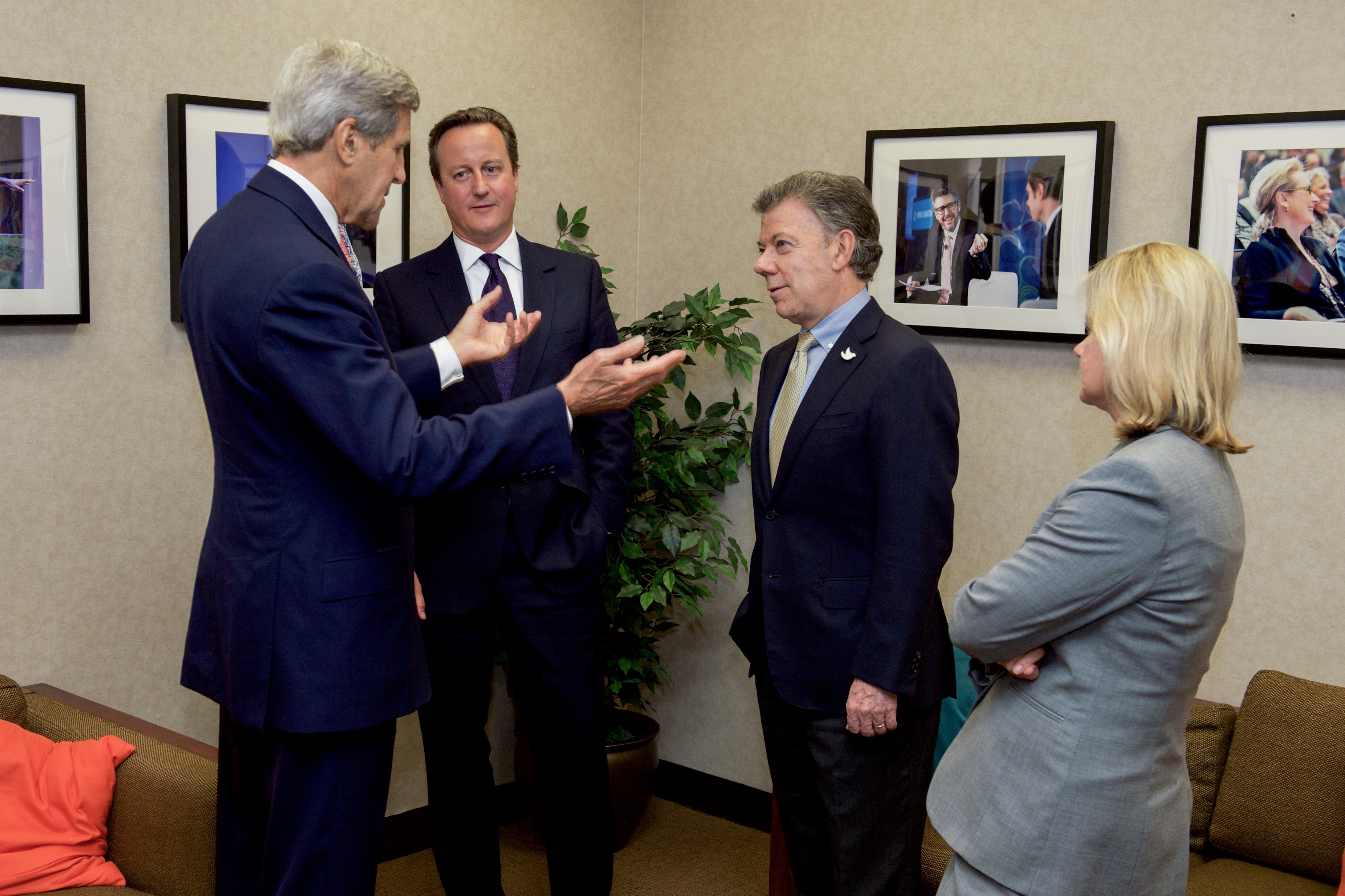 U.S. Secretary of State John Kerry speaks with British Prime Minister David Cameron, Colombian President Juan Manuel Santos, and U.K. International Development Secretary of State Justine Greening before they participated in a Ford Foundation event in New York, N.Y., on September 27, 2015. [State Department photo/ Public Domain]